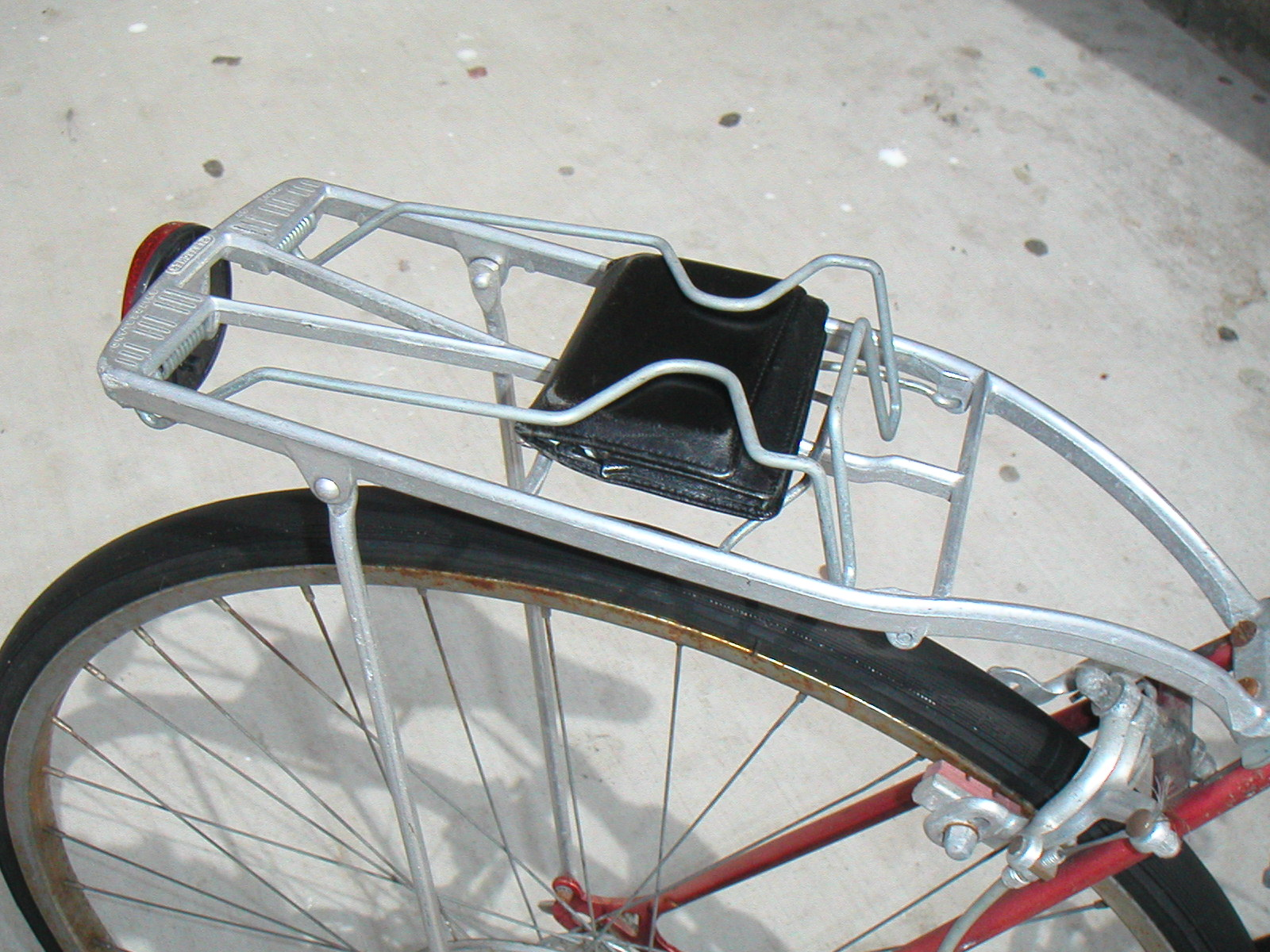 Taken by Andrew Dressel